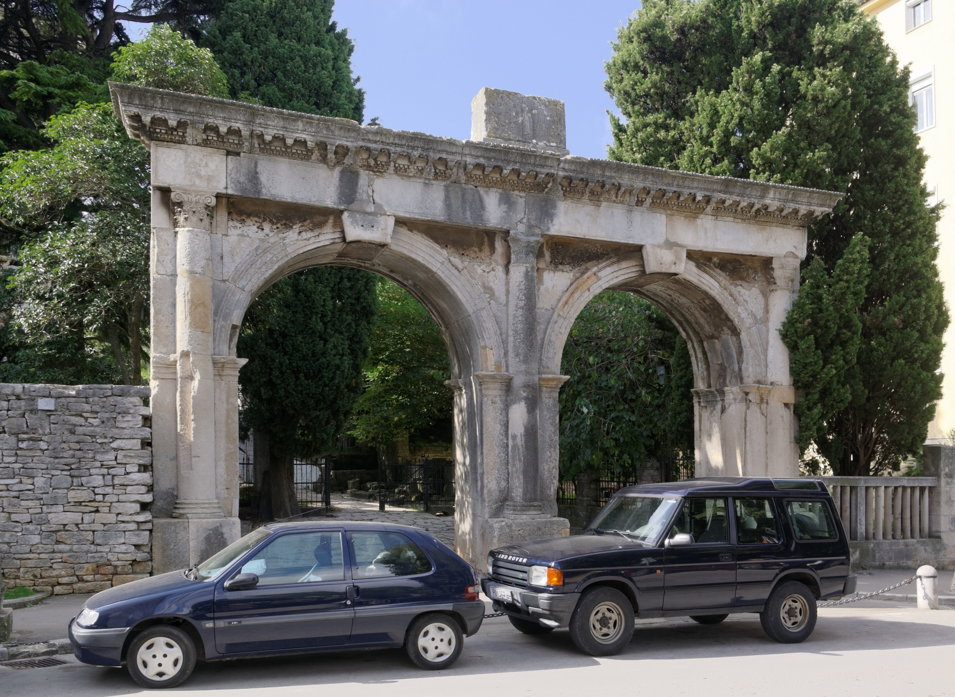 Croatia, Pula, Porta Gemina